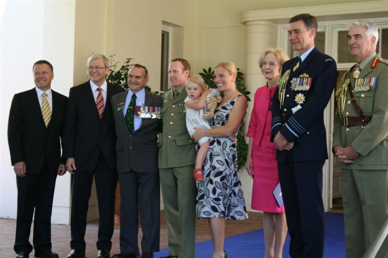 Investiture of the Victoria Cross for Australia to Trooper Mark Donaldson